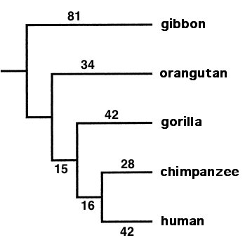 I made this diagram. The numbers are from "A molecular phylogeny of the hominoid primates as indicated by two-dimensional protein electrophoresis." by D. Goldman, P. R. Giri and S. J. O'Brien in Proc Natl Acad Sci U S A (1987) Volume 84 pages 3307-3311.